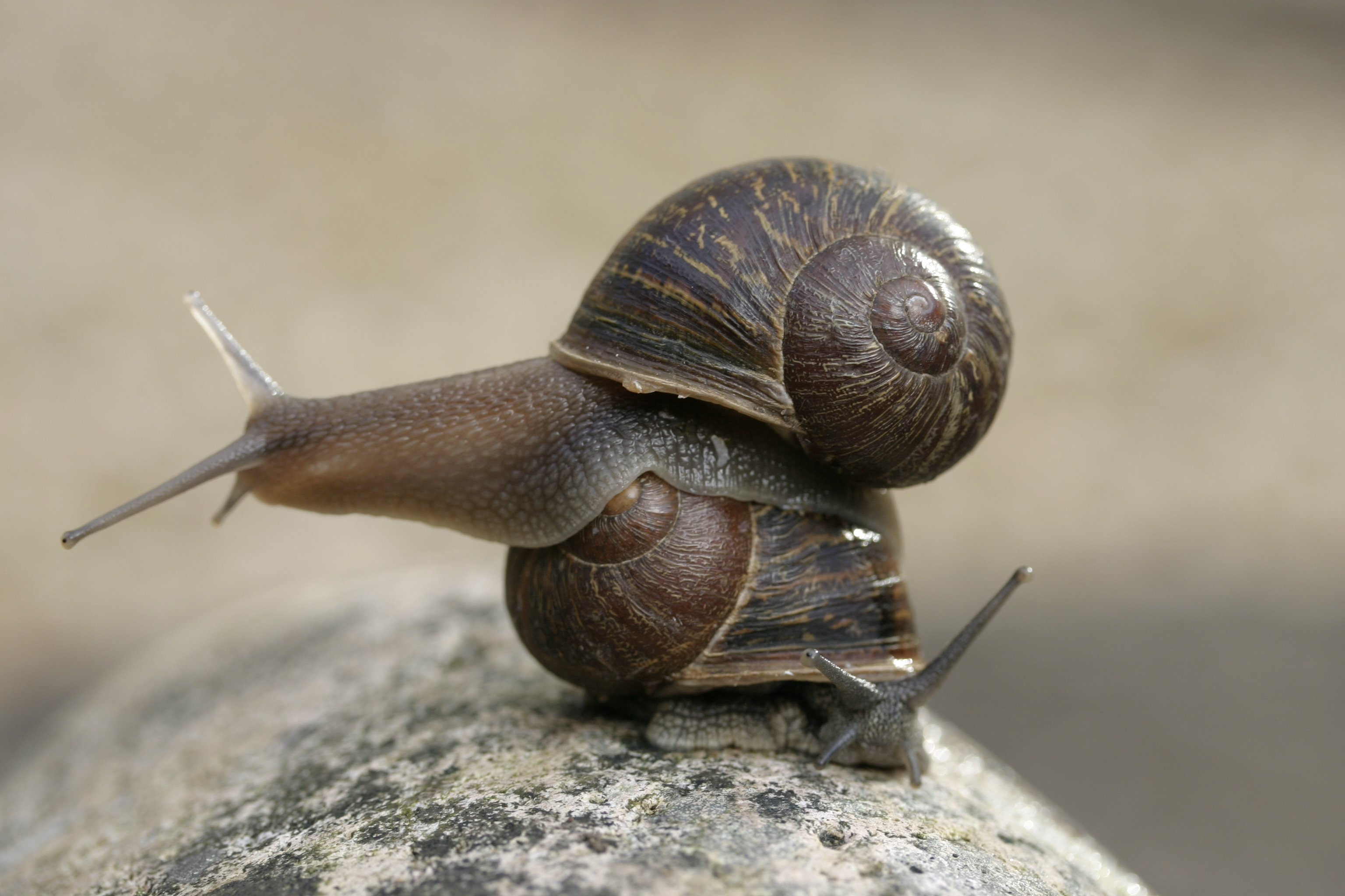 This is Jeremy the snail, a rare left-coiling brown garden snail, Cornu aspersum, on top of a right-coiling snail.